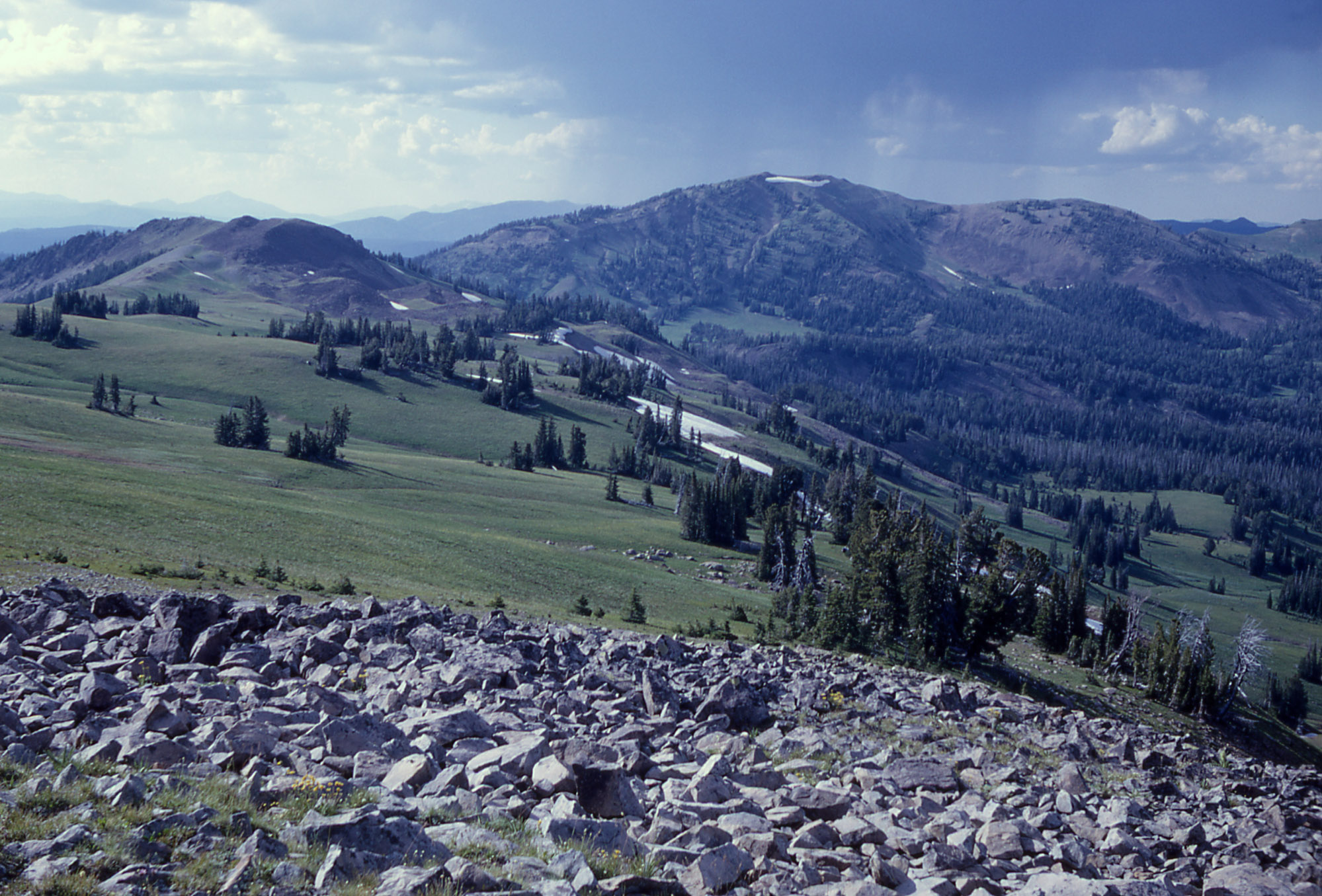 Gray Peak from the Gallatin Divide, Yellowstone National Park, 1965